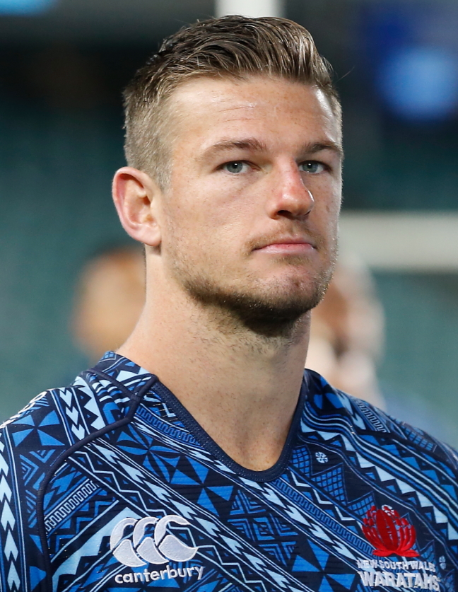 2017.07.08.21.46.29-Rob Horne